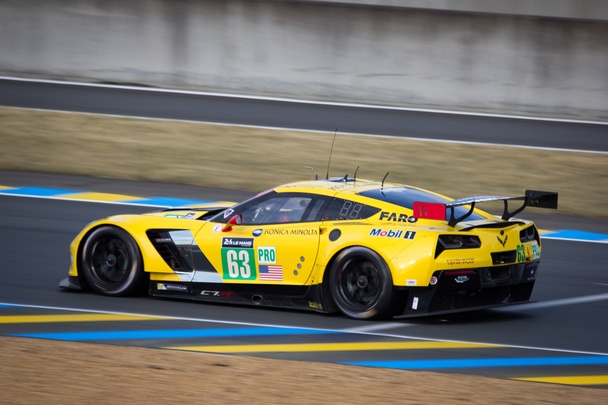 Drivers: Jan Magnussen, Antonio Garcia, Ryan Briscoe